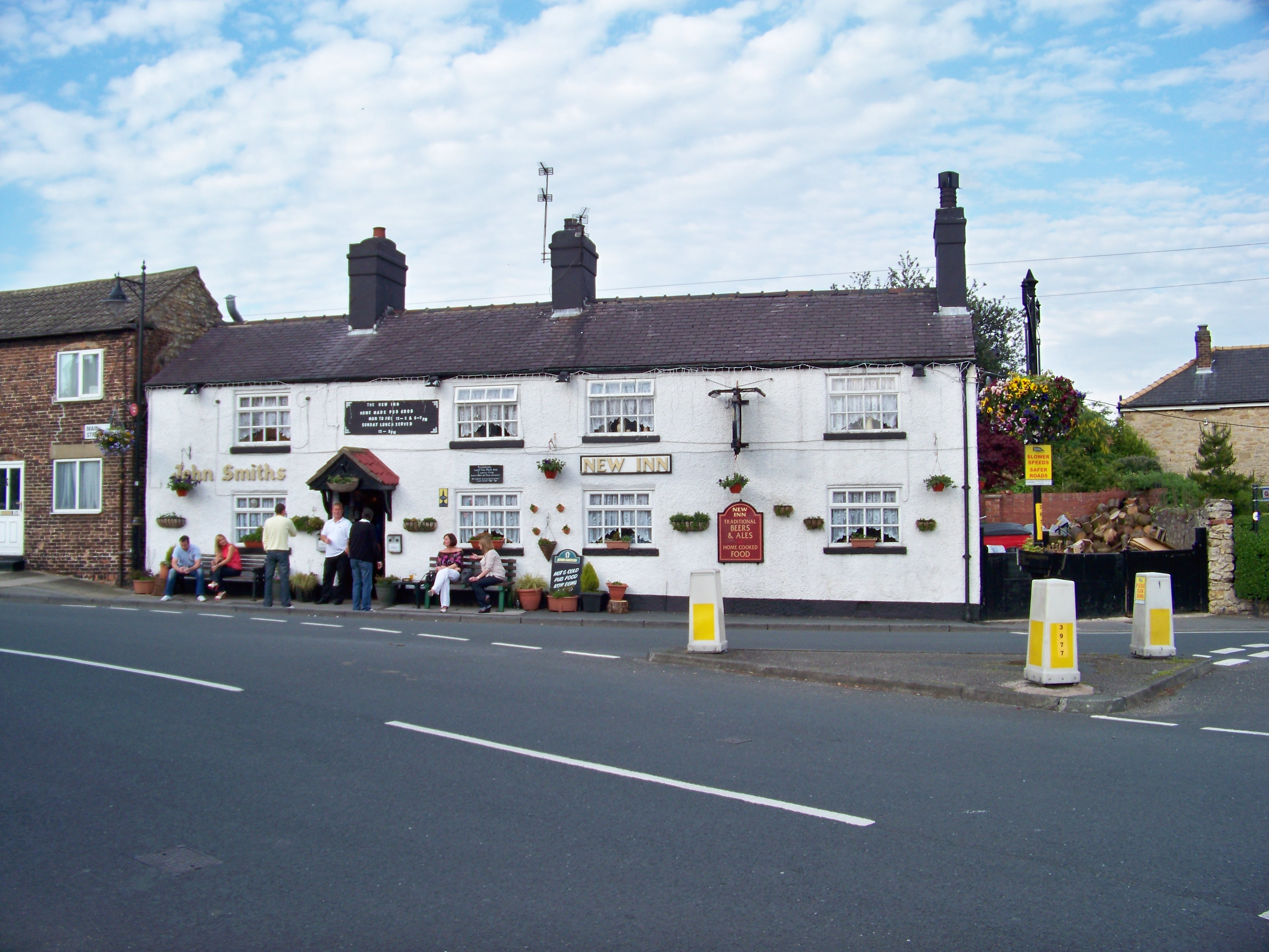 The New Inn public house in Barwick in Elmet, Leeds, West Yorkshire, UK. Taken on the 23rd May 2009.